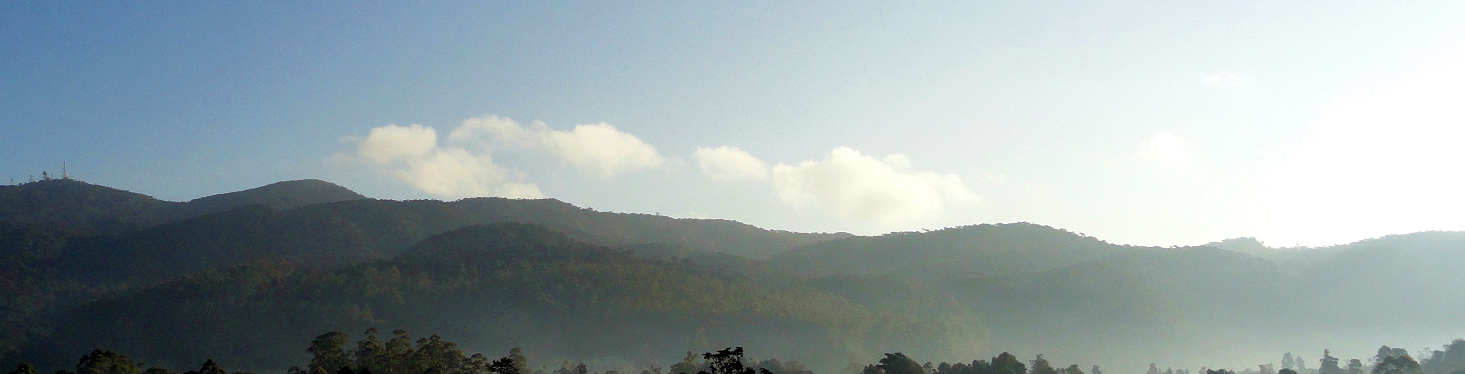 Panoramic view of Mount Pedro and the surrounding mountain range. The radio equipment seen at the far left is at the summit of Mount Pedro, the tallest mountain in Sri Lanka.